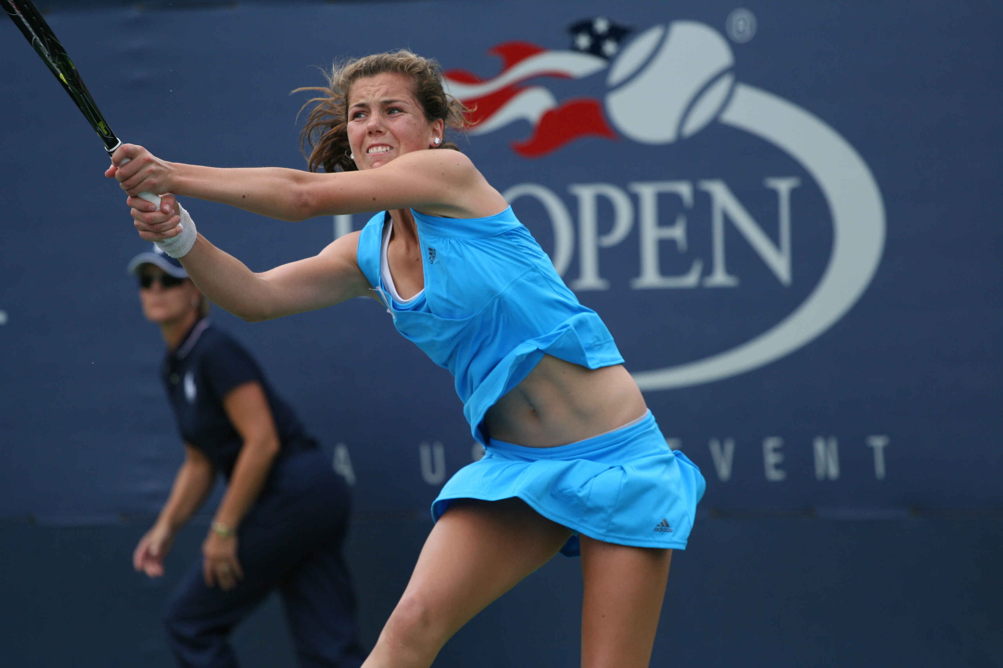 Ulrikke Eikeri at the 2009 US Open